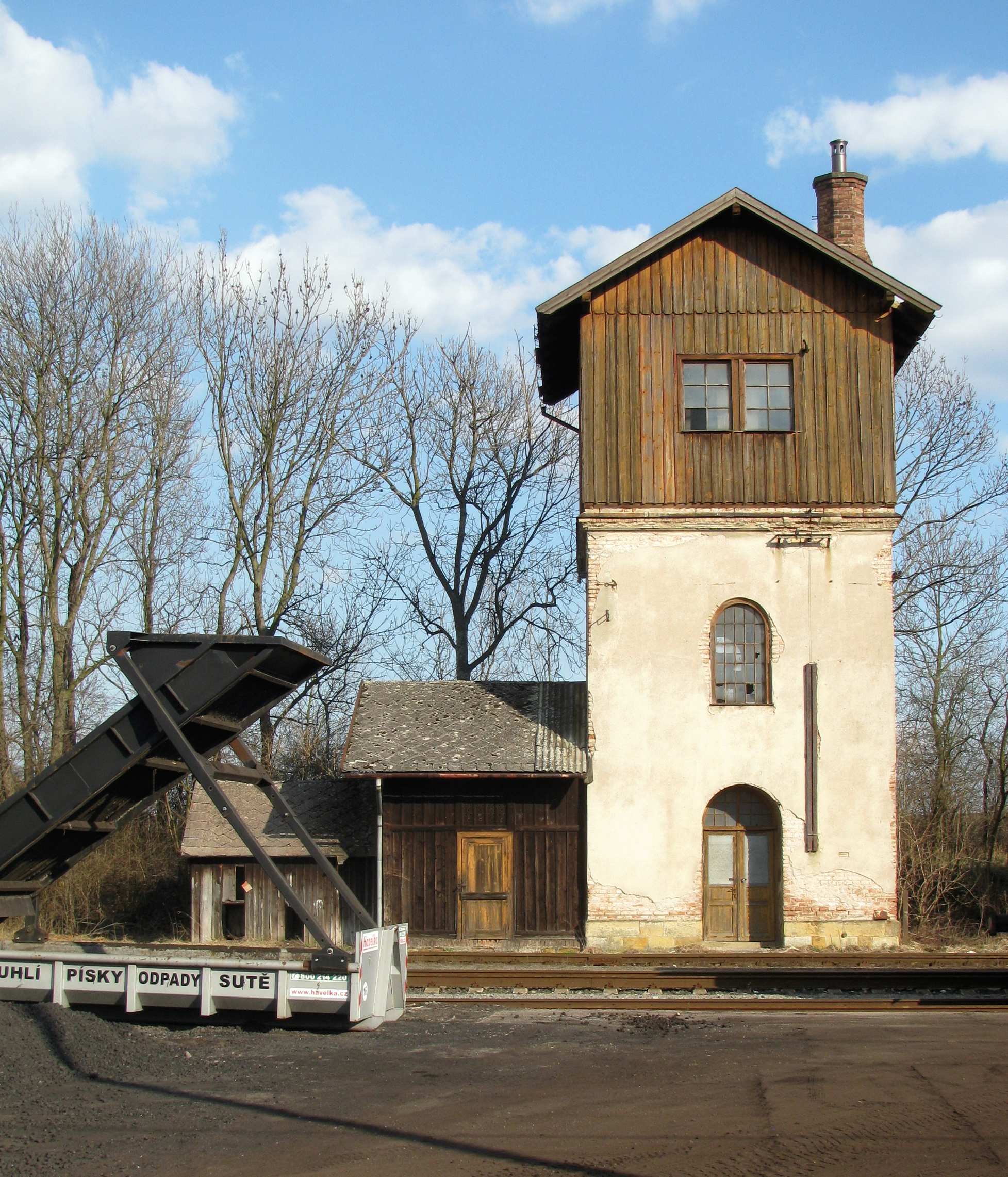 Railway water tower at Křinec railway station, Czech Republic